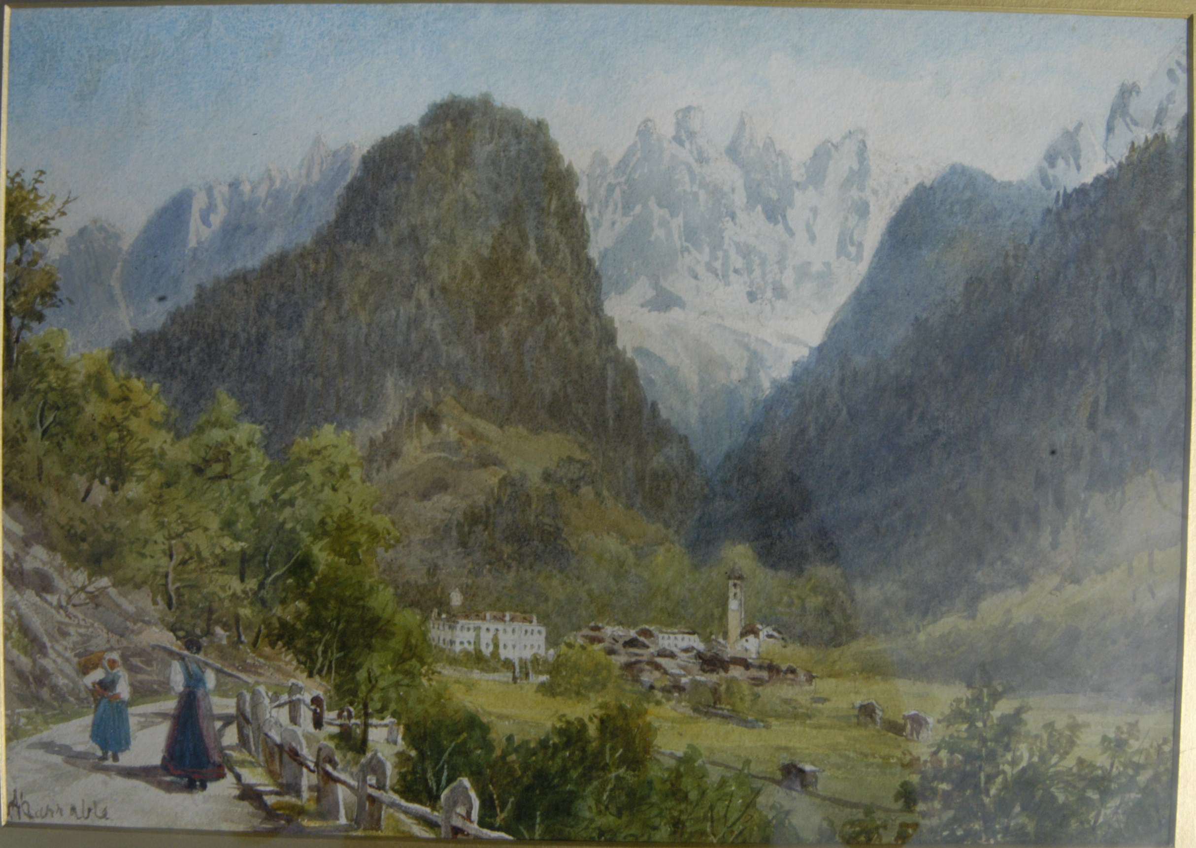 photo (by me Rodolph (talk) 23:47, 26 July 2013 (UTC)) of a watercolour of Bondo from the west, late nineteenth century, by Madeline Marrable (London 1833 - London 1916).